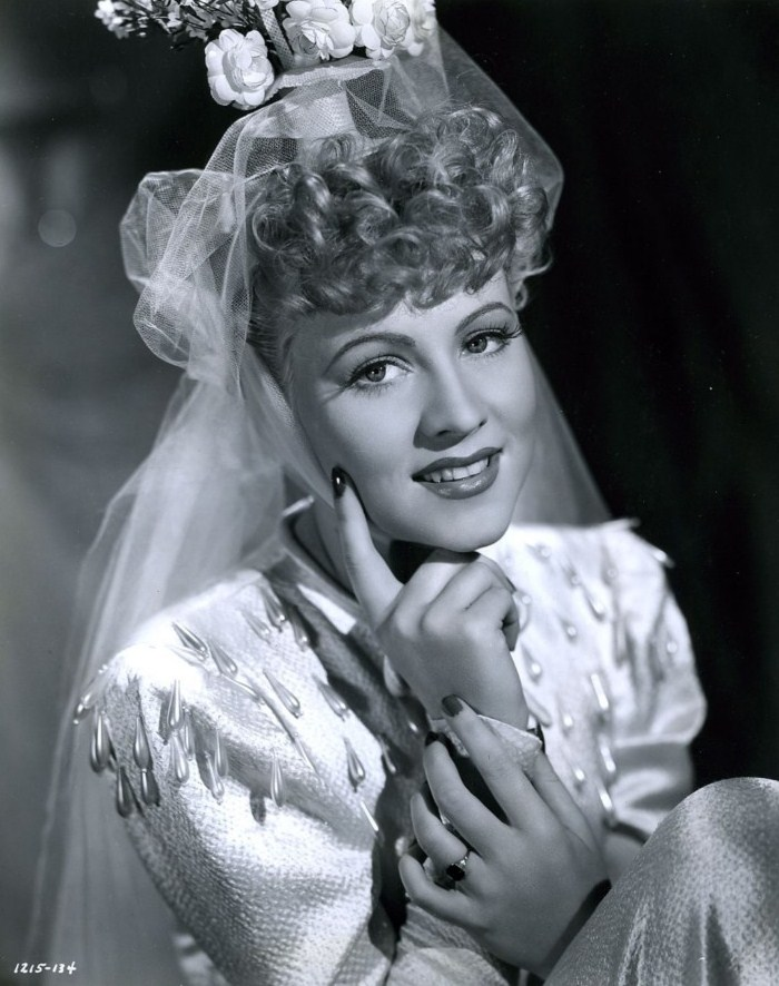 Anne Jeffreys in I Married an Angel - publicity still (original image cropped : see source)